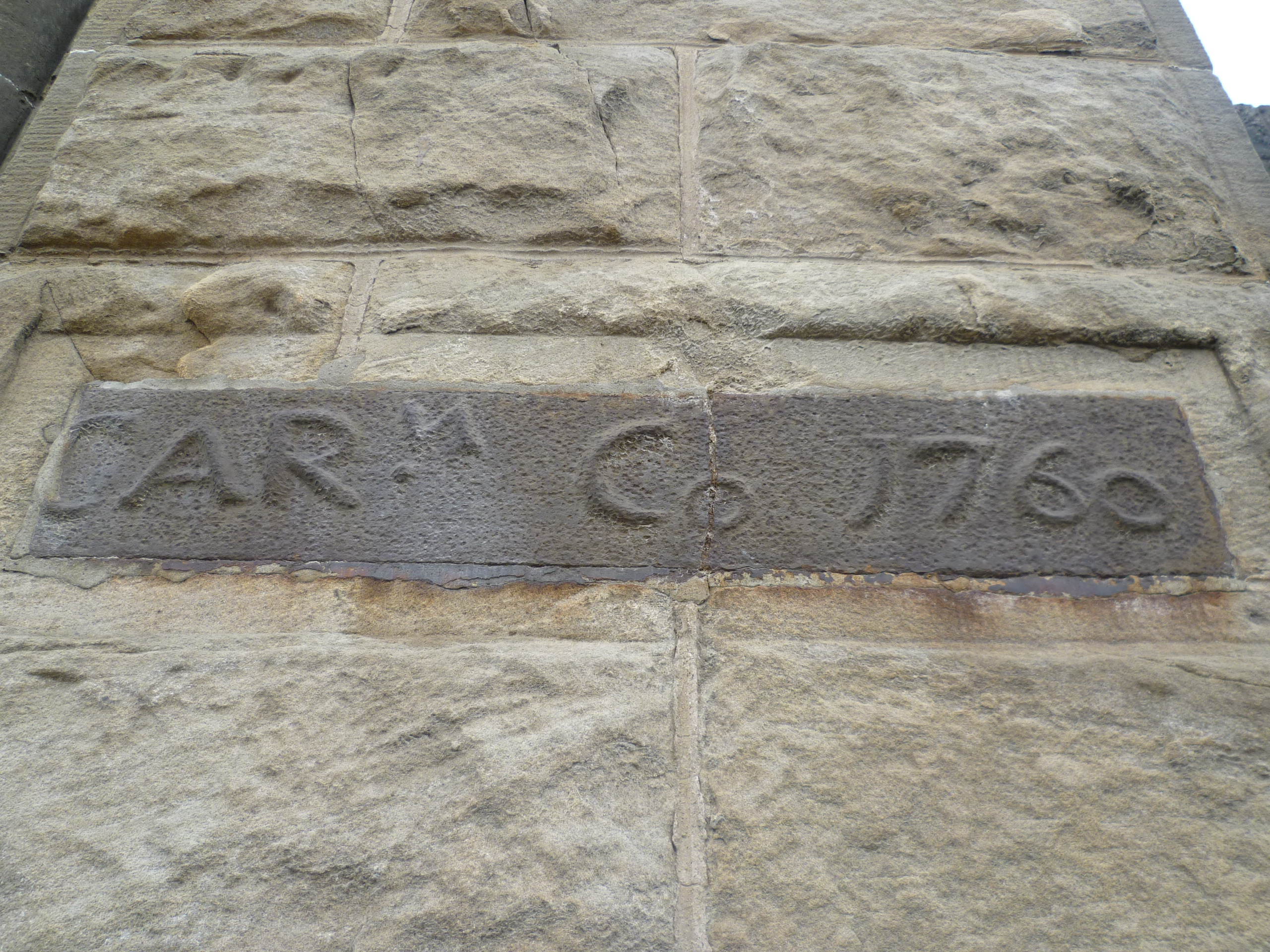 Dated iron lintel from the first operational blast furnace at the Carron Works, embedded in the wall of the old clocktower entrance.